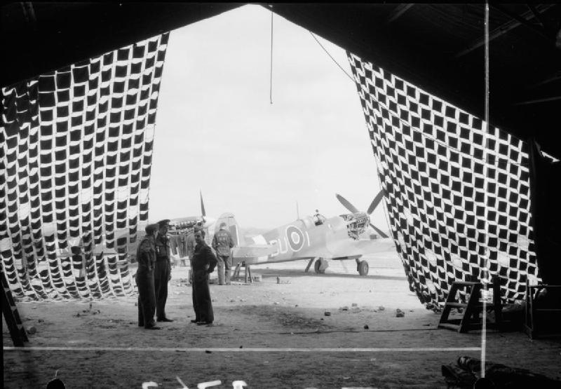 Royal Air Force- 2nd Tactical Air Force, 1943-1945. Supermarine Spitfire LF Mark IXBs of Nos. 312 and 313 (Czech) Squadrons RAF undergoing engine repair and maintenance at Appledram, Sussex, viewed through the entrance of a Butler combat hangar covered with camouflage netting.